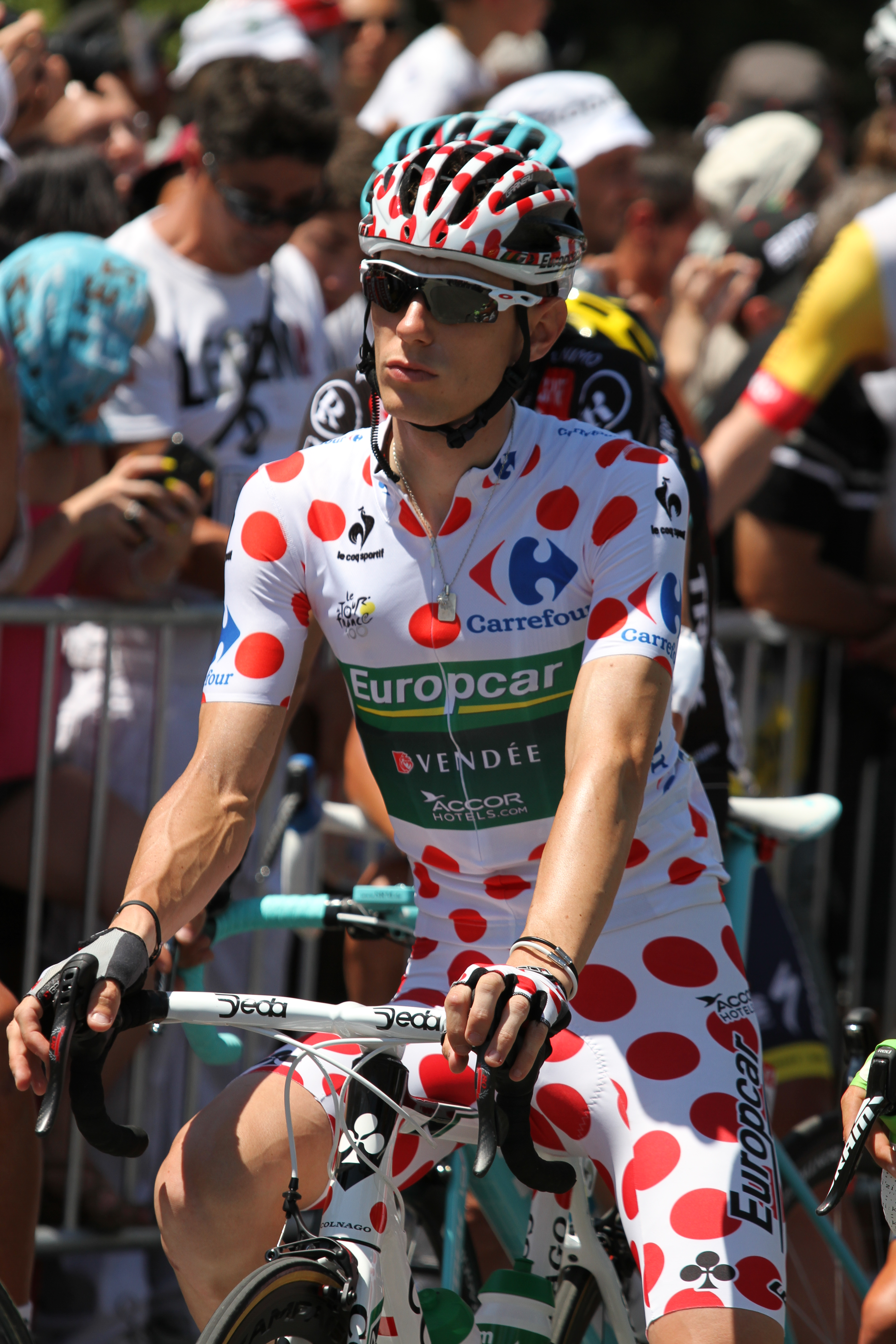 Pierre Rolland during Stage 6 of the Tour de France 2013 in Aix-en-Provence (Bouches-du-Rhône, France)